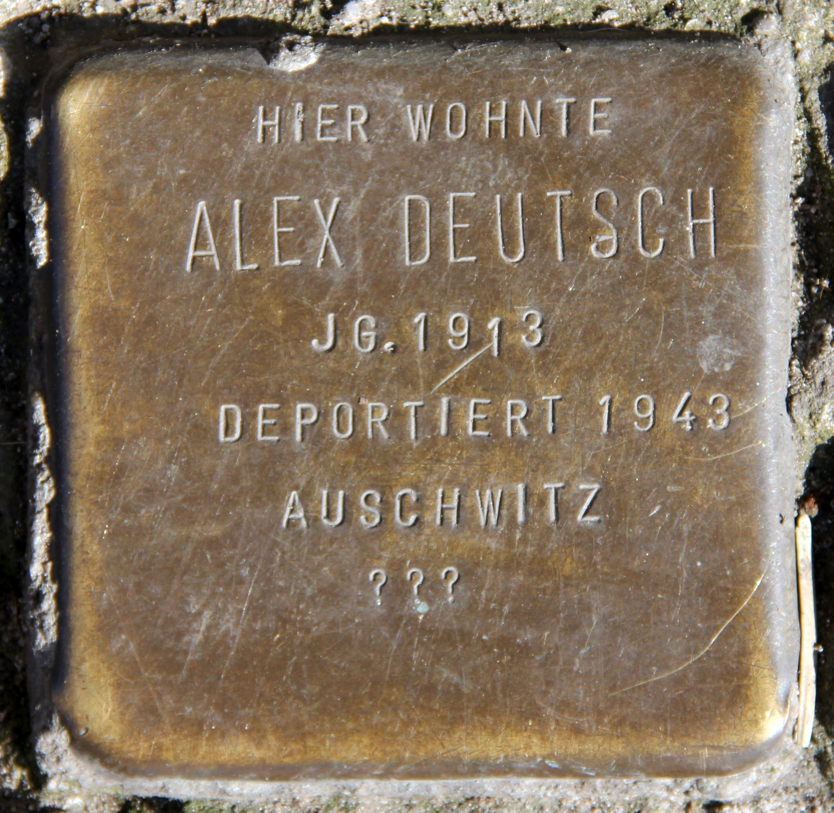 "Stolperstein" (stumbling block), Alex Deutsch, Blücherstraße 61b, Berlin-Kreuzberg, Germany